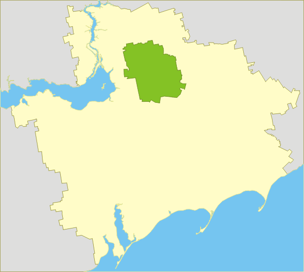 Контурная_карта_Ореховского_района_Запорожской_области